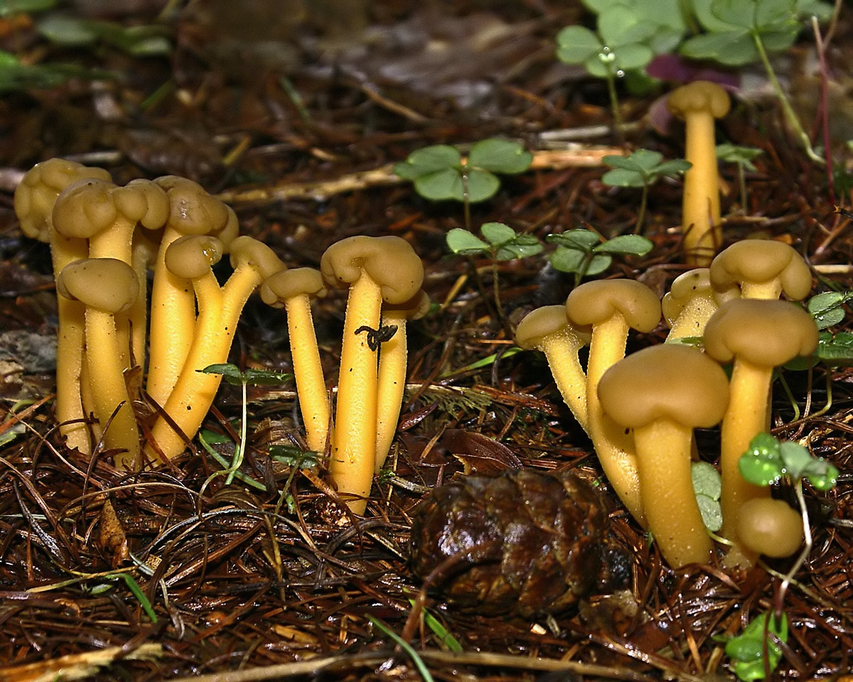 Leotia lubrica (Scop.) Pers. Location: Lennox Forest, East Dunbartonshire, Scotland For more information about this, see the observation page at Mushroom Observer.